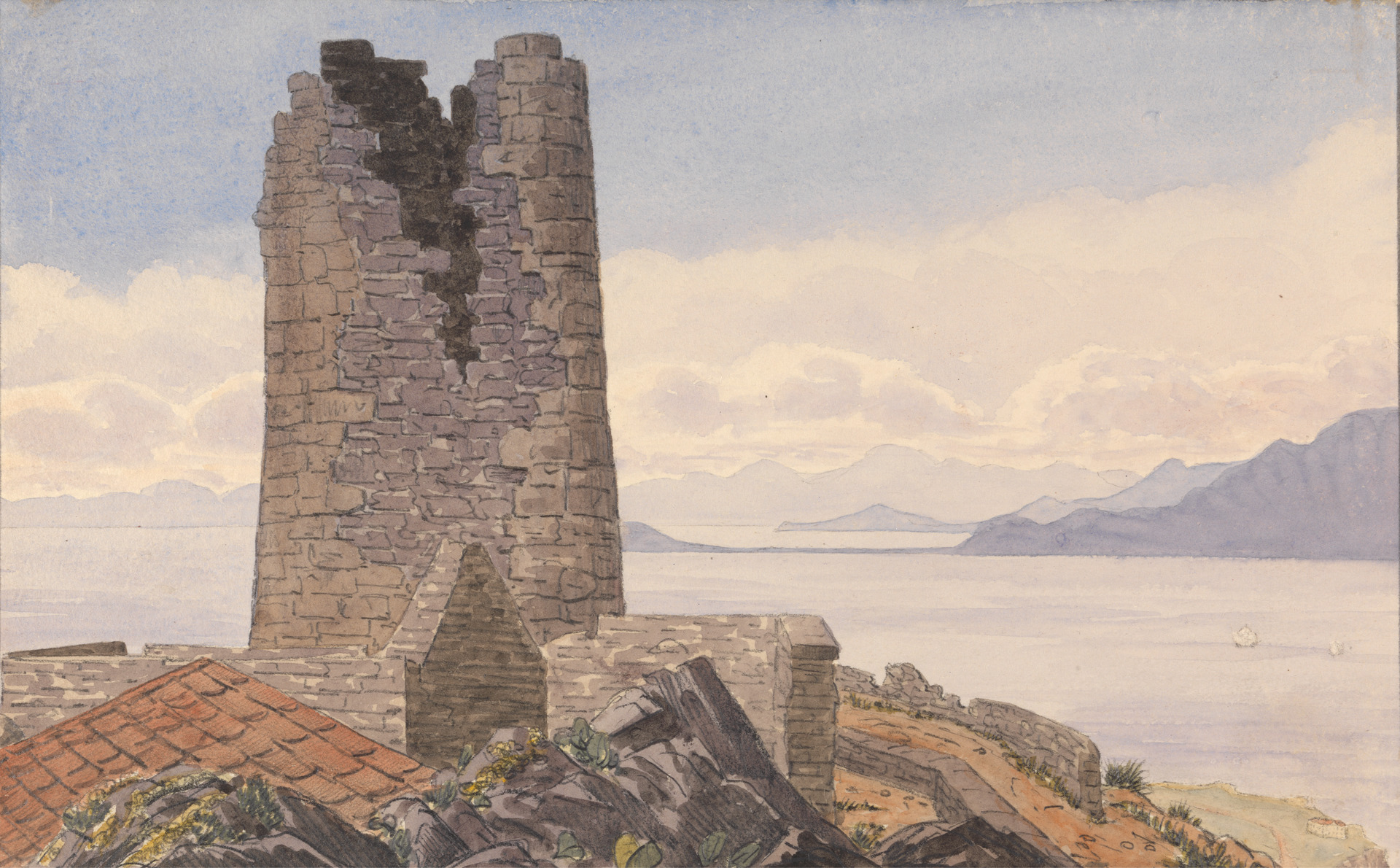 O'Hara's Tower, Gibraltar by George Lothian Hall, 1825-1888 from Yale Center for British Art, Paul Mellon Collection